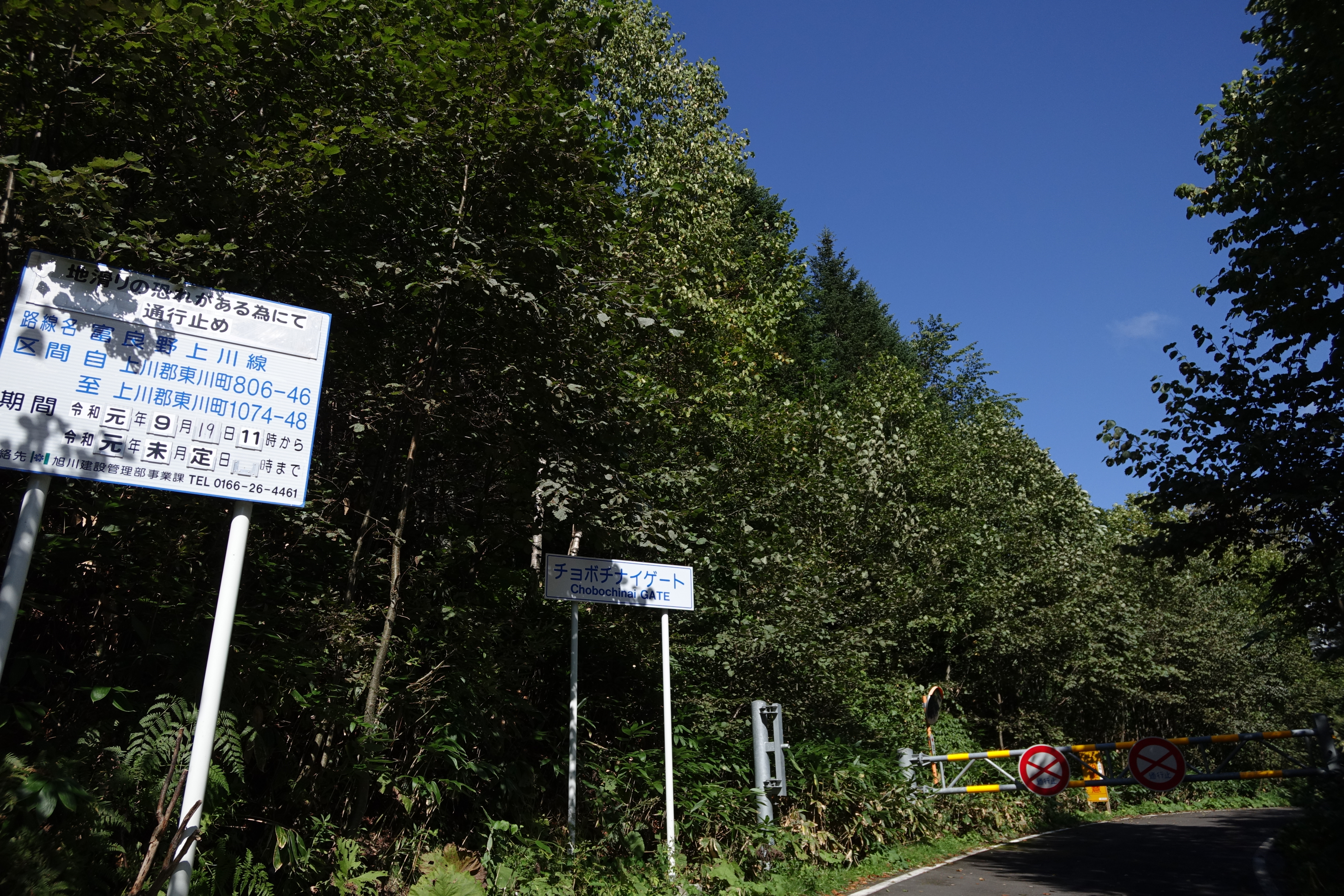 Chobochinai Gate of Hokkaido prefectural road 1116